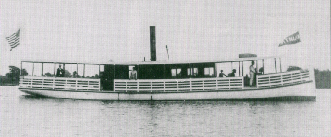 The steamer Atlantic, which carried passengers between Rehoboth Beach, and Ocean View in the early 20th century.